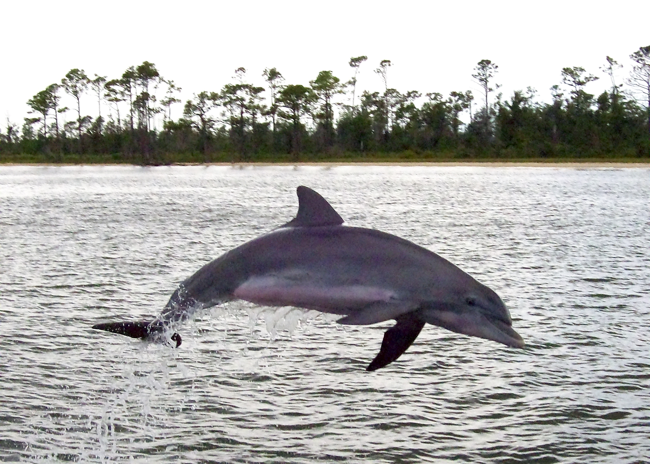 A Bottlenose Dolphin at play in Perdido Bay, near Orange Beach, Baldwin County, Alabama in 2006.